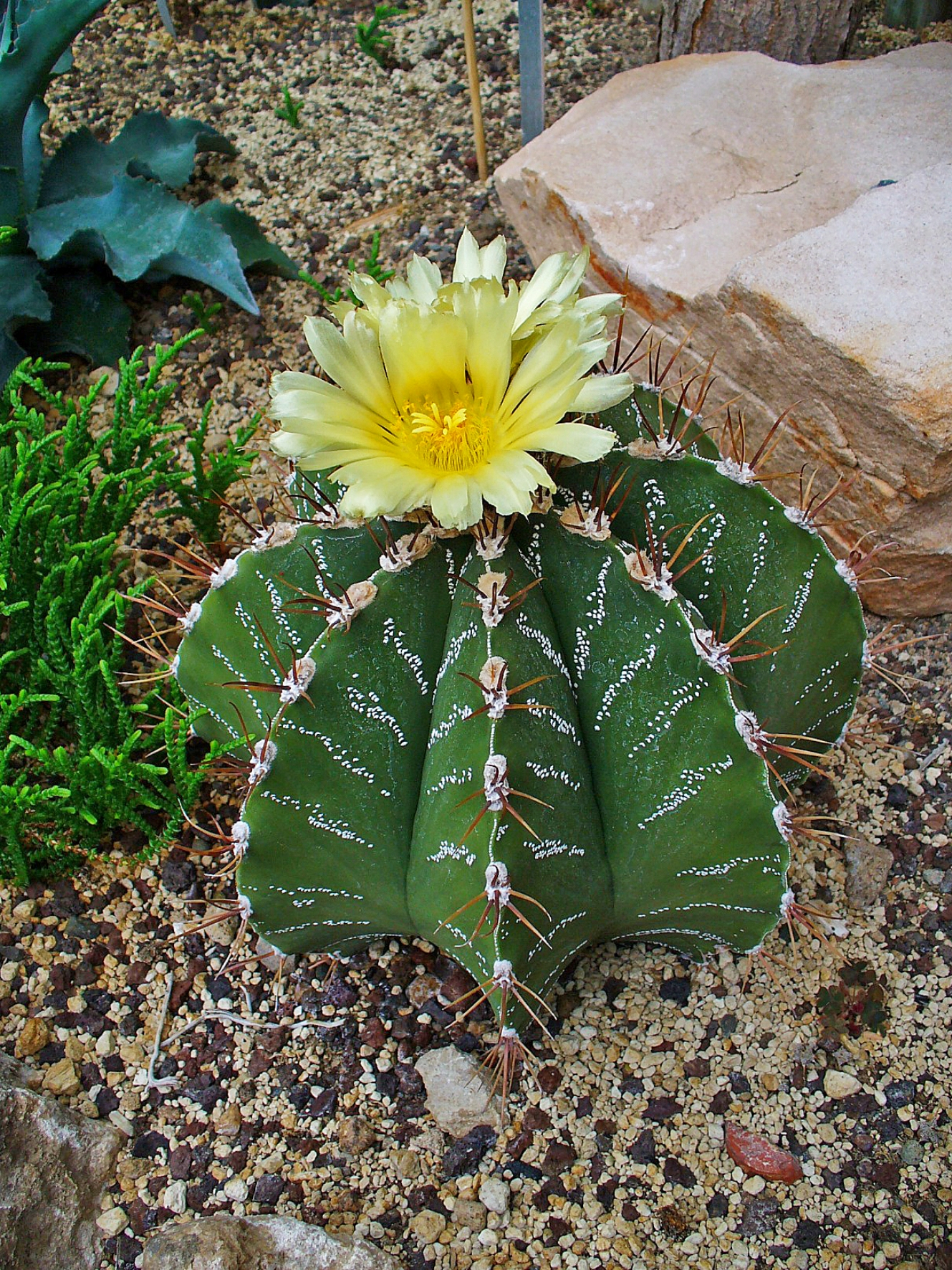 Astrophytum ornatum, Cactaceae, Monk’s Hood, habitus; Botanical Garden KIT, Karlsruhe, Germany.